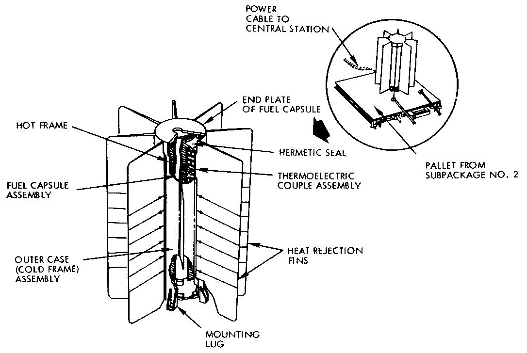 Diagram of an RTG. Part of the ALSEP.